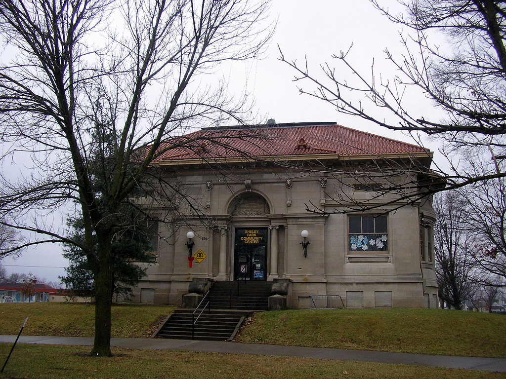 Built in 1911. The only all-stone Carnegie Library in Louisville other than the main branch. Designed by the Loomis and Hartman firm. It was closed circa 1994 as a library when the Highland and Shelby Park Branches merged and moved into Mid-City Mall.